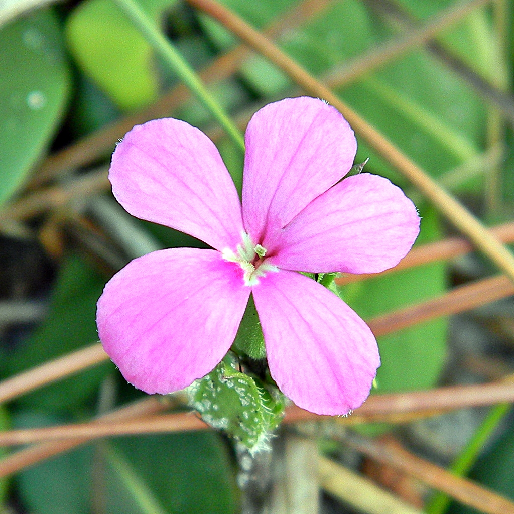 Stenandrium dulce. Sweet Shaggytuft or Pineland Pinklet. Plant growing flat against the ground in sandy area in pine flatwoods. Very pretty but small flower 10-15mm. Palm Beach County, Florida. Love the name :-)